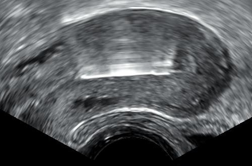 Transvaginal ultrasonography visualizing an IUD with copper in optimal location within the uterus of a 25 year old female who contacted the clinic because of irregular menstruation, and no threads were visible.